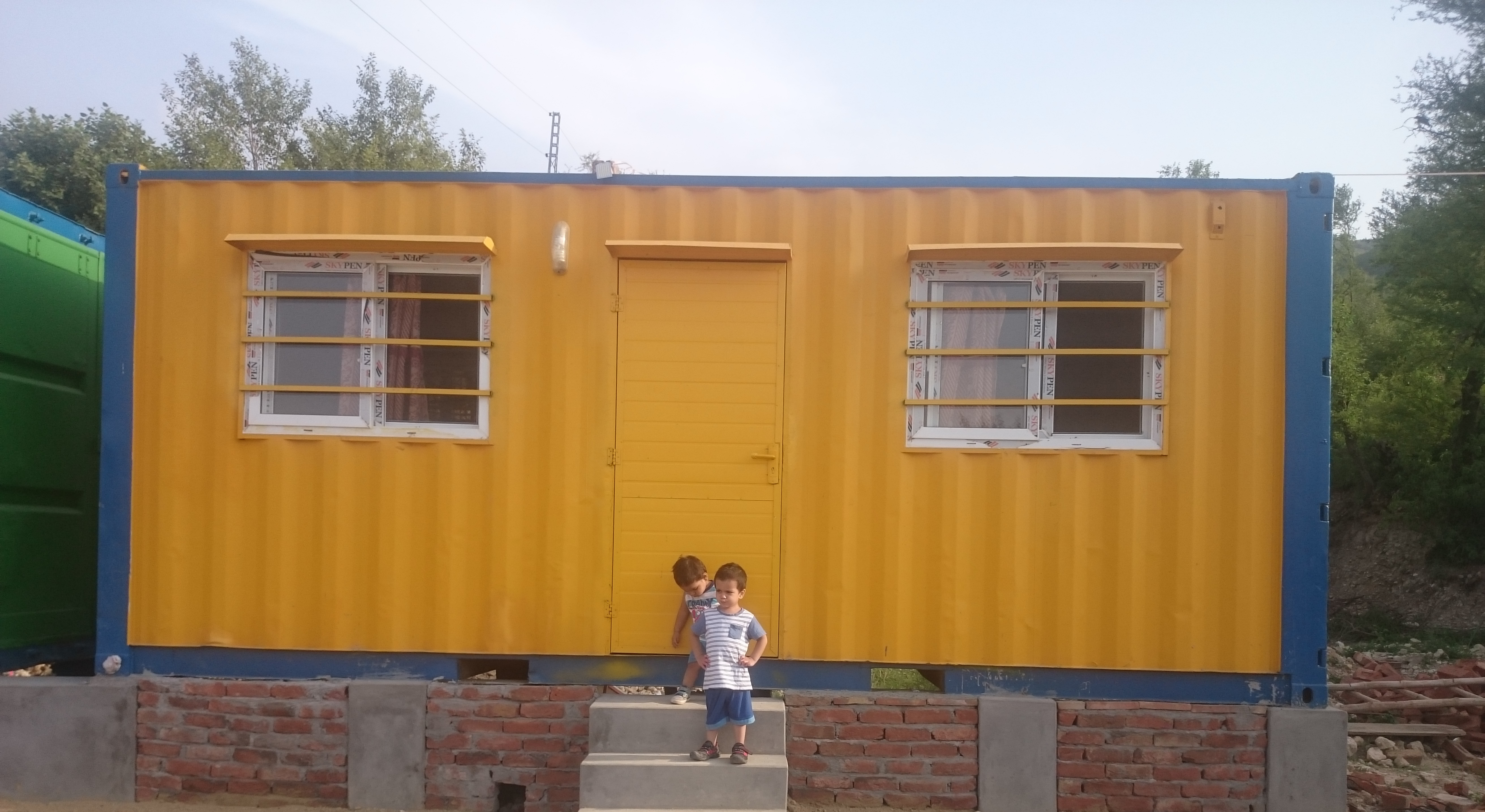 Caravan styled condos for staying. Ideal for families with food, electricity, solar powered fans and transport